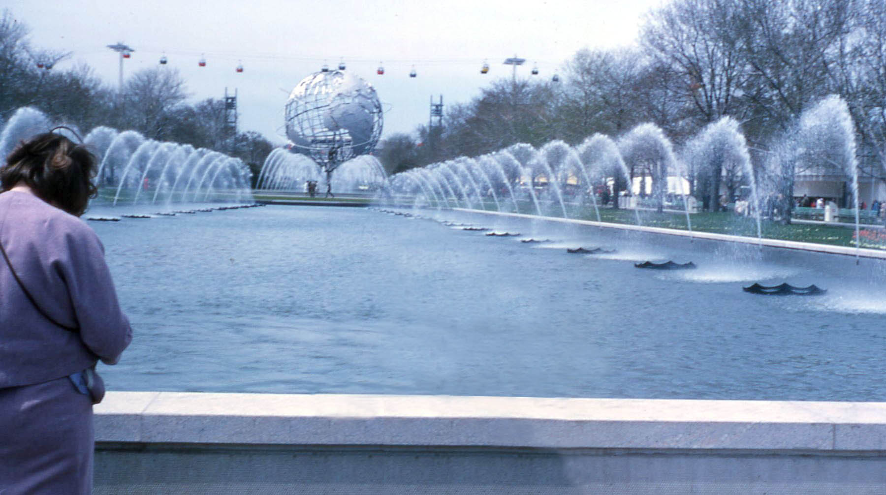 Fountains at the New York World's Fair, 1964